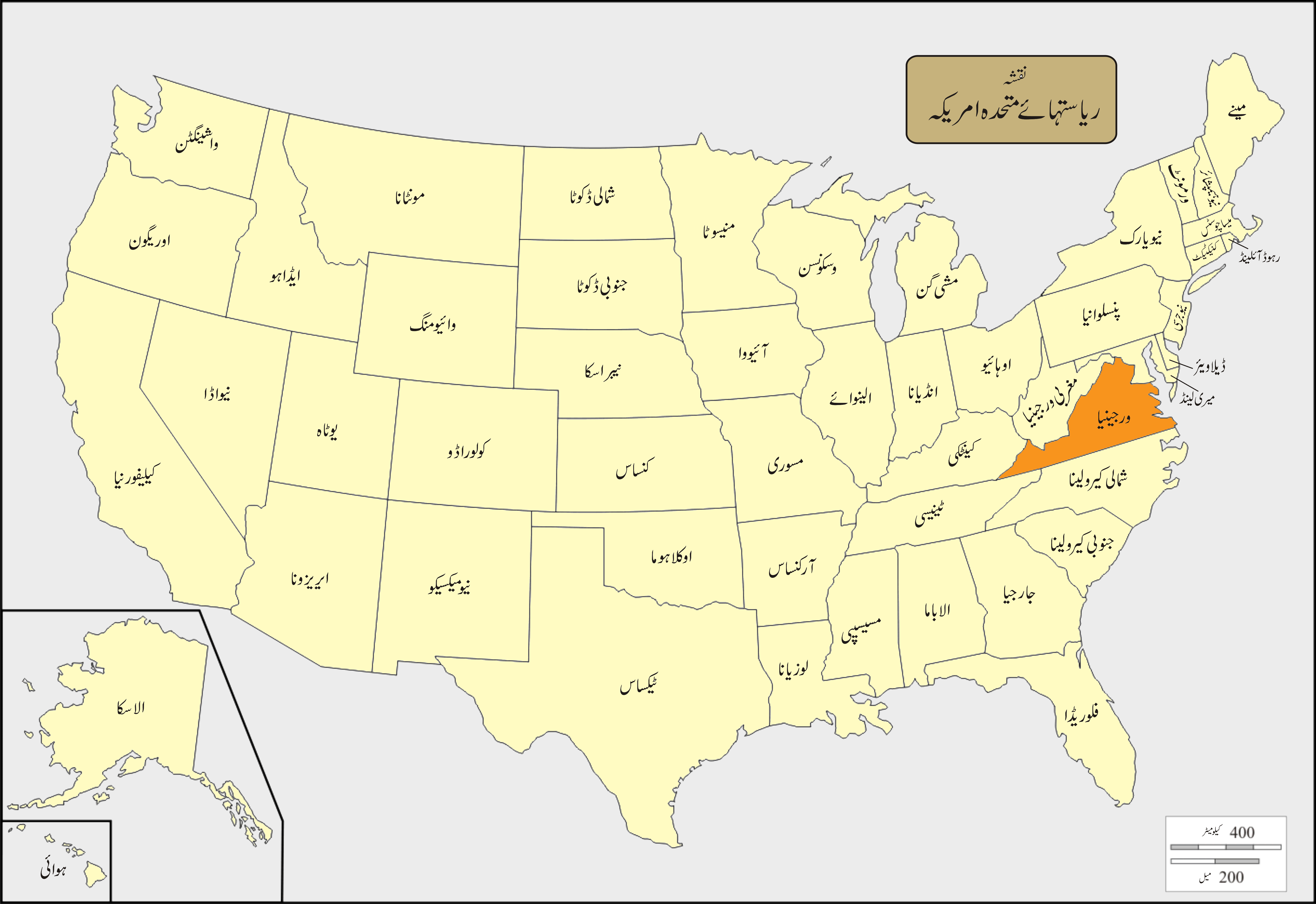 USA Names Virginia